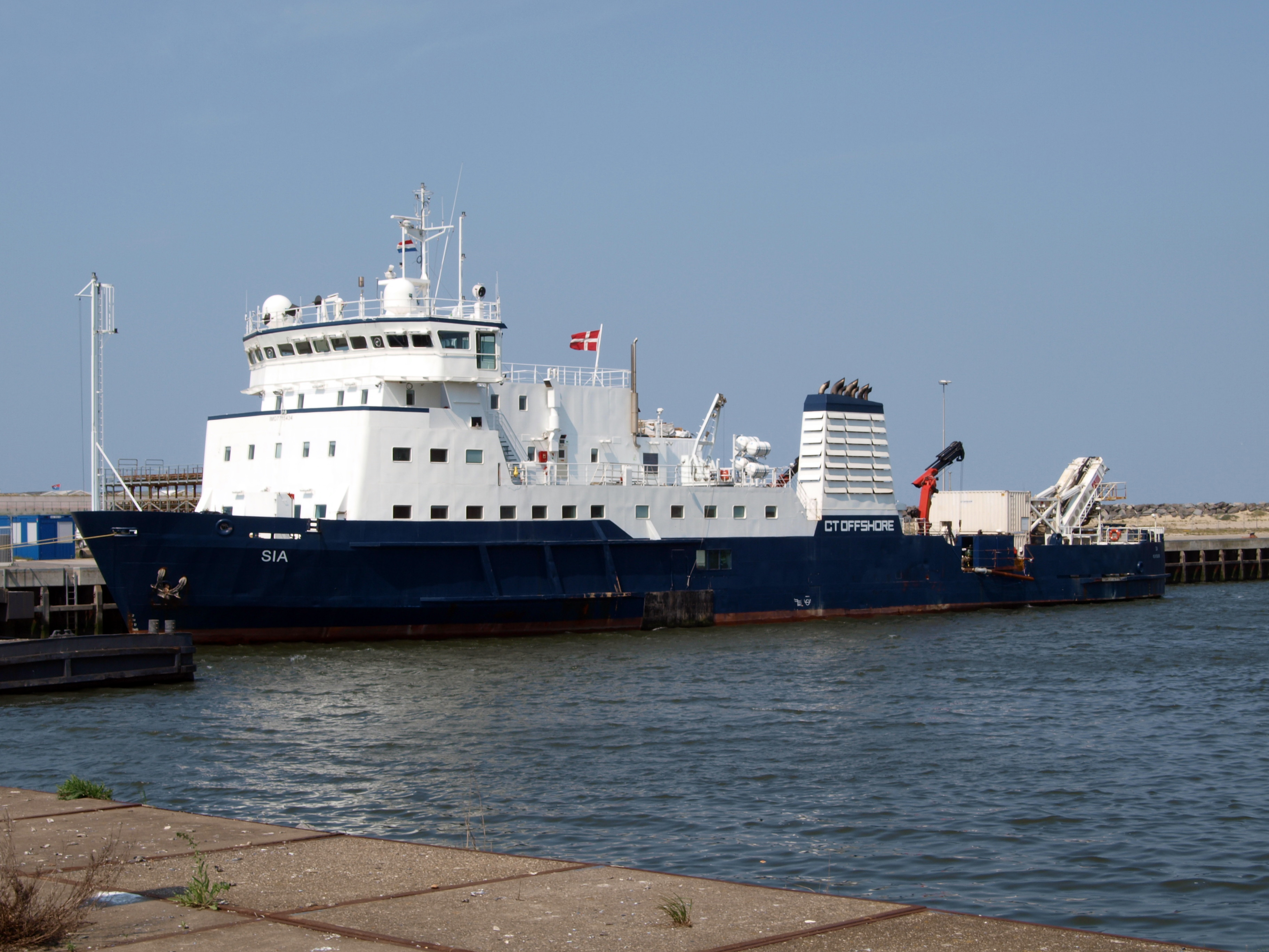 Sia at IJmuiden, Port of Amsterdam